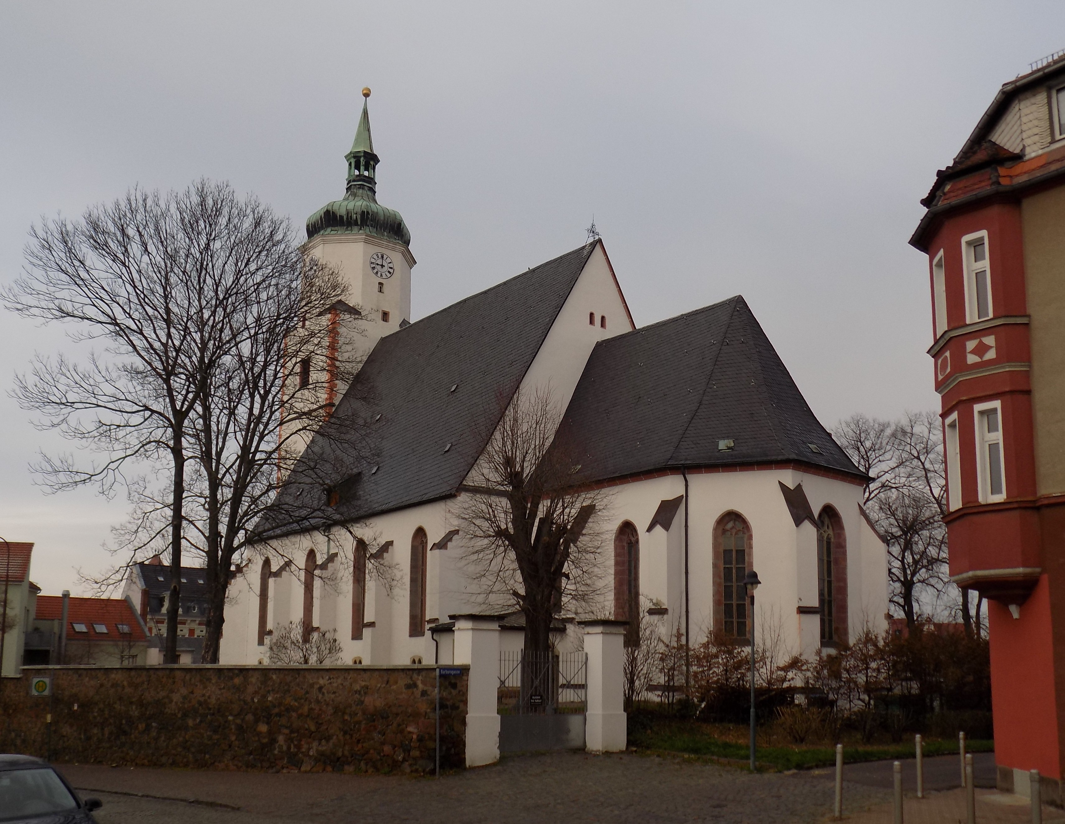 St. Wenceslaus Church in Wurzen (Leipzig district, Saxony) from the north